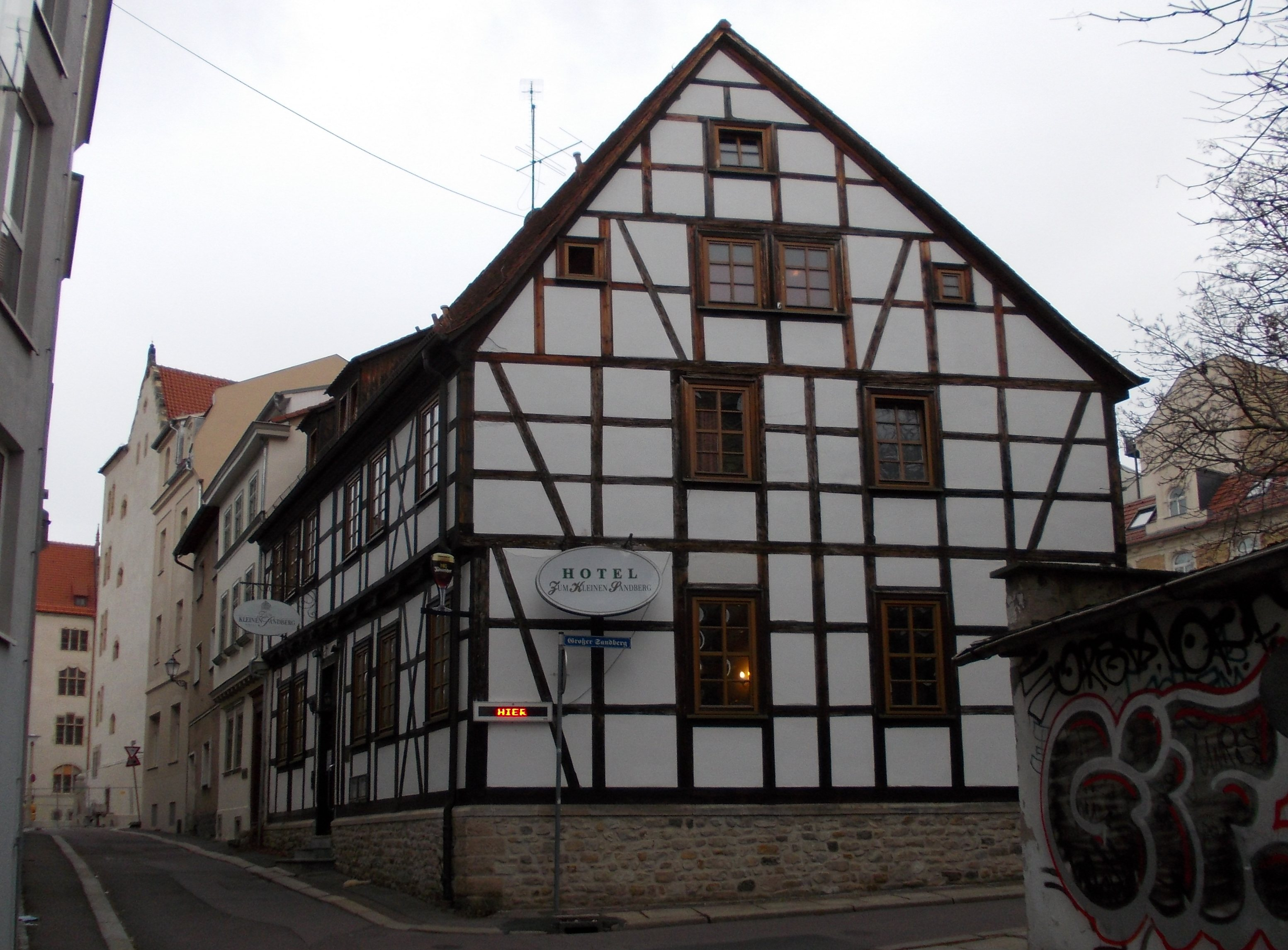 Hotel at Kleiner Sandberg in Halle/Saale (Saxony-Anhalt)